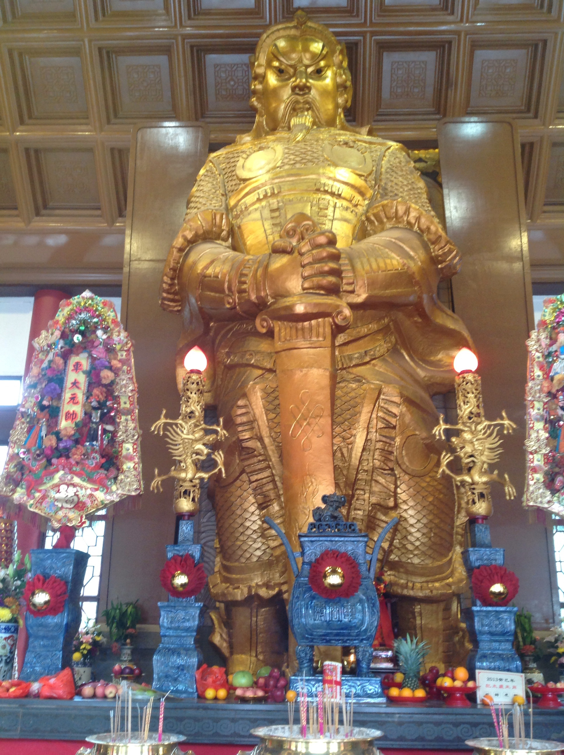 Che Kung Temple, Sha Tin District, Hong Kong